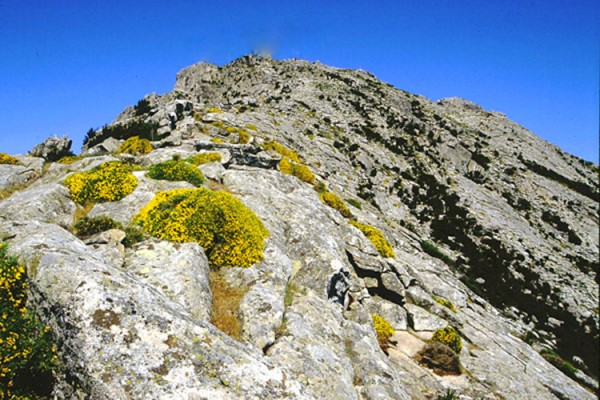 Monte Capanne